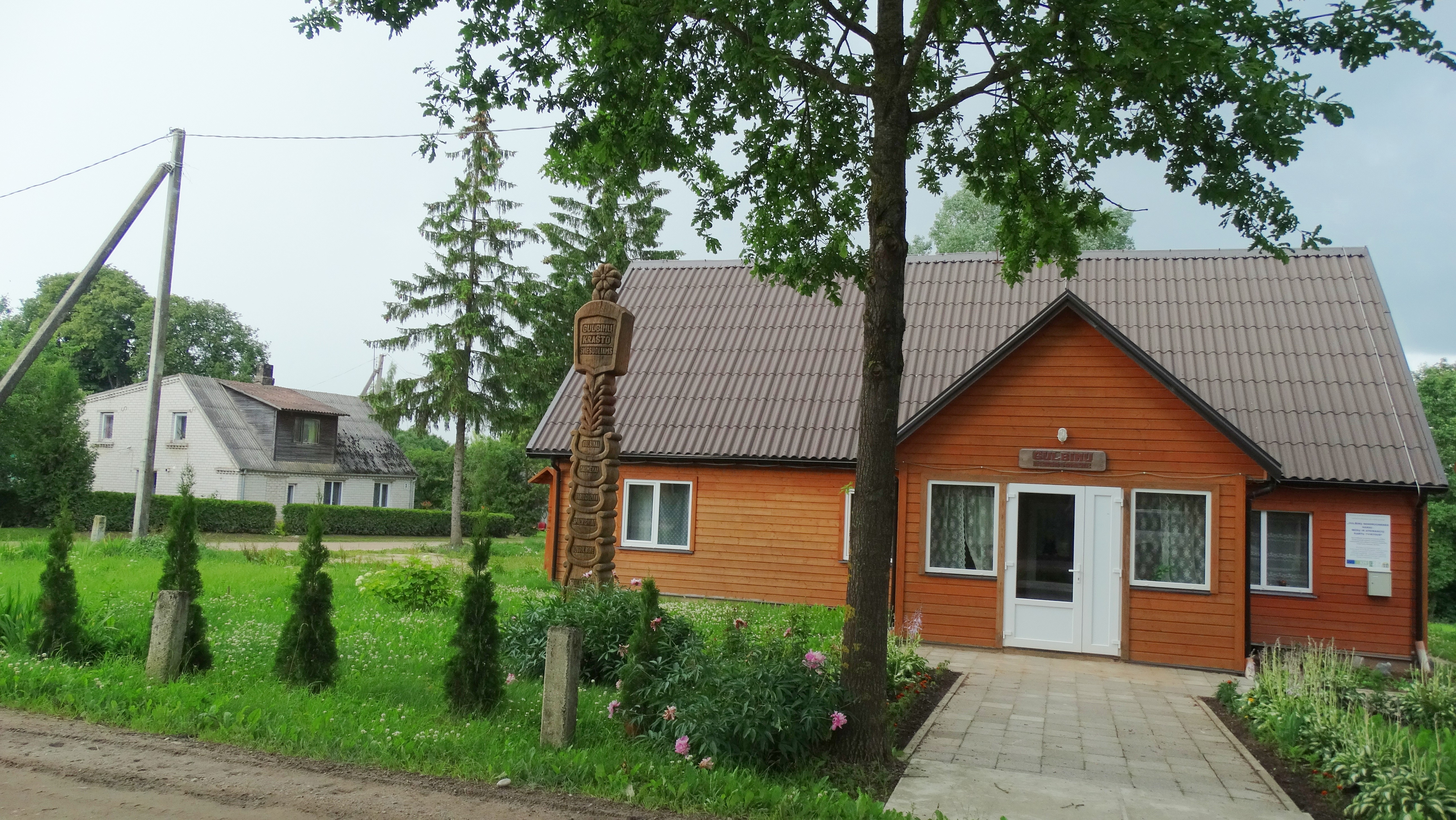 Community house, Gulbinai, Biržai district, Lithuania